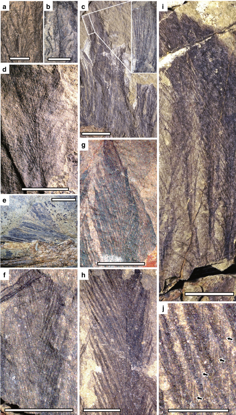 Feathers preserved in Caihong juji. Feathers attached to the neck: (a) pennaceous feathers and (b) down-like feather; (c) feathers attached to the chest and trunk region; (d) primary or secondary remige near the carpal joint; (e) alula; (f) pennaceous feather on the tibiotarsus; (g) anterior rectrix; (h) posterior rectrix; (i) middle rectrix; (j) close-up of barbs and barbules. Scale bars are 0.2 cm in a, b, j; 0.5 cm in d, e, f, g, h; and 1 cm in c, i, respectively. Arrows in j indicate barbules of a rectrix